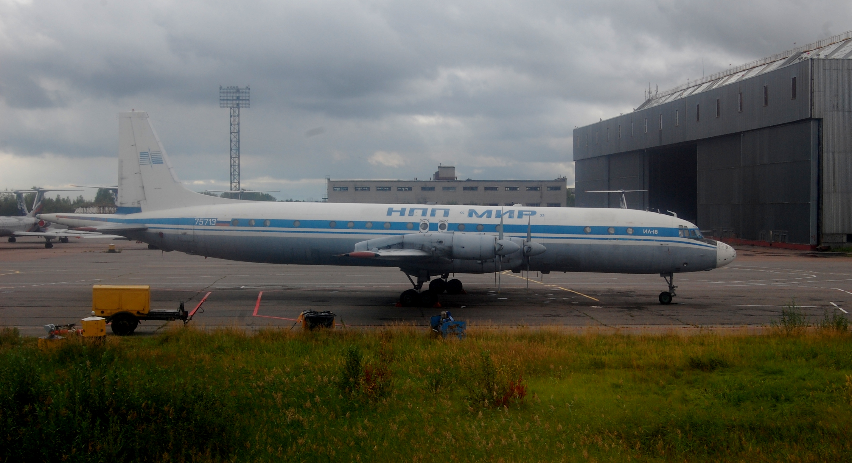 IL-18 (75713) at Talagi Airport Arkhangelsk, Russia